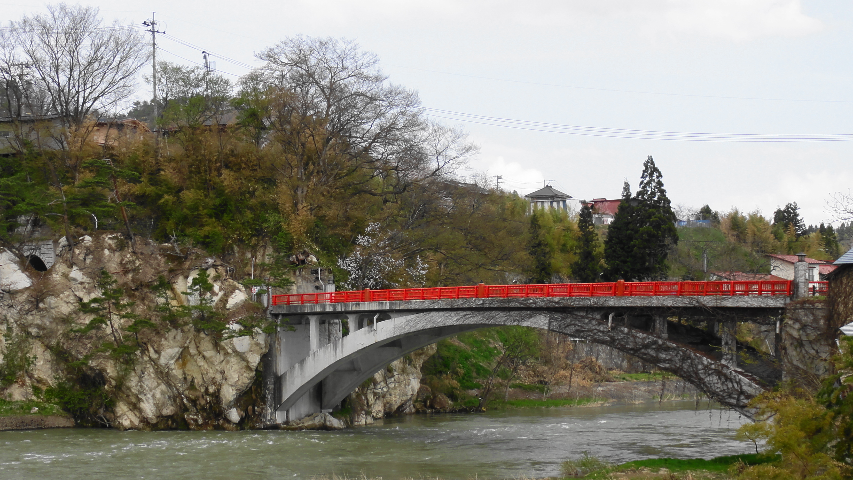 Garyū-kyo bridge, in Sagae City, Yamagata prefecture, Japan